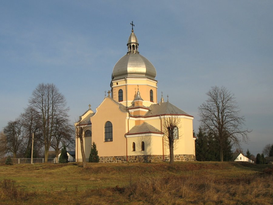 Cetula, Cetula - former Greek Catholic Saint Michael church, now Roman Catholic Saint Anthony church